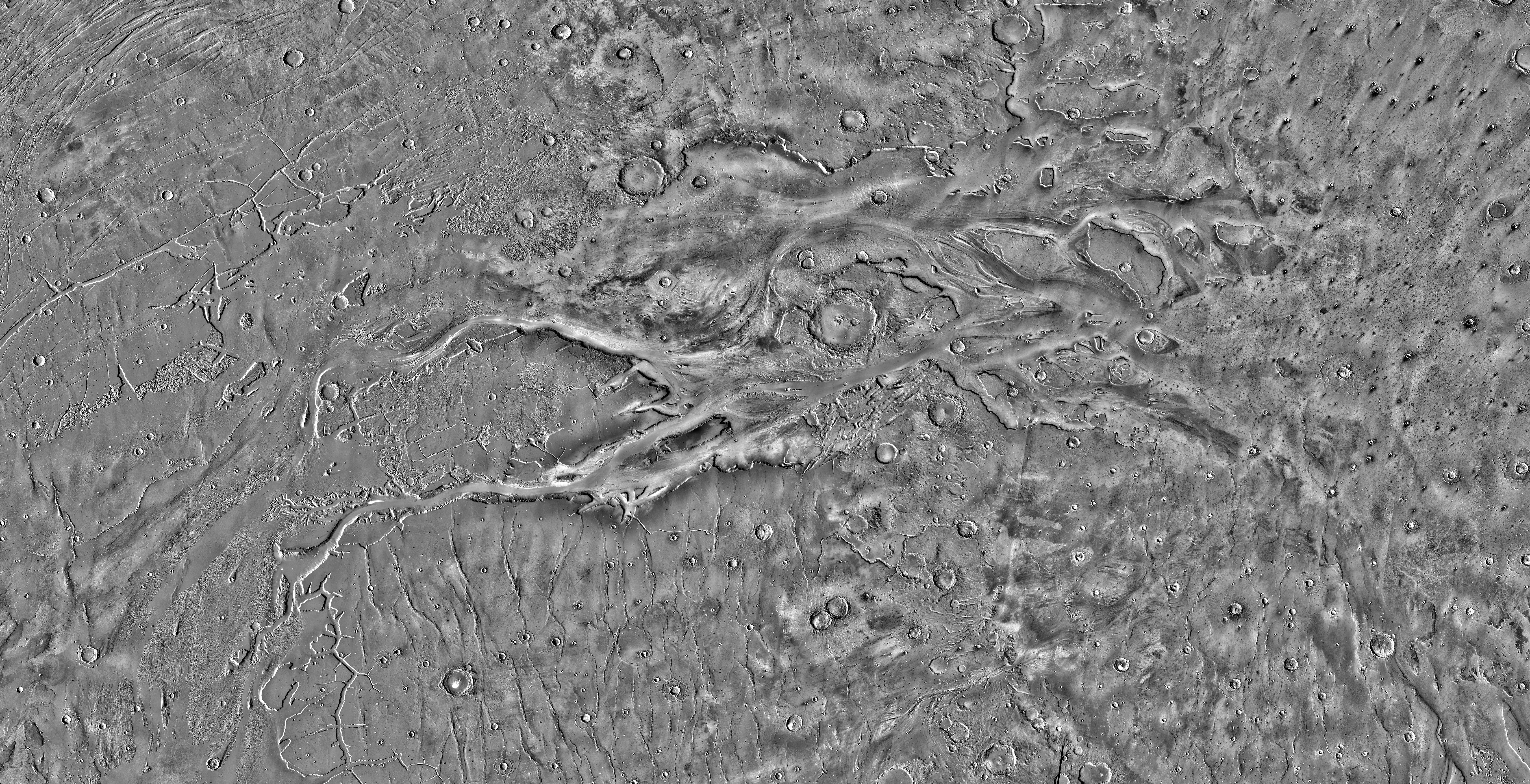 THEMIS daytime infrared image mosaic showing Kasei Valles, a large system of outflow channels on Mars, and its surroundings. Kasei Valles is situated north of the Valles Marineris canyon system. It drains eastward into Chryse Planitia. Some of the features in this mosaic are annotated in Wikimedia Commons.